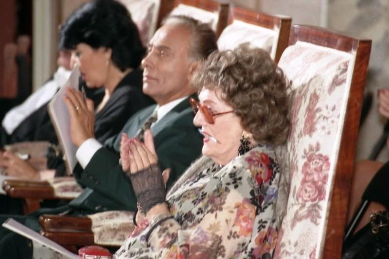 Romansiada